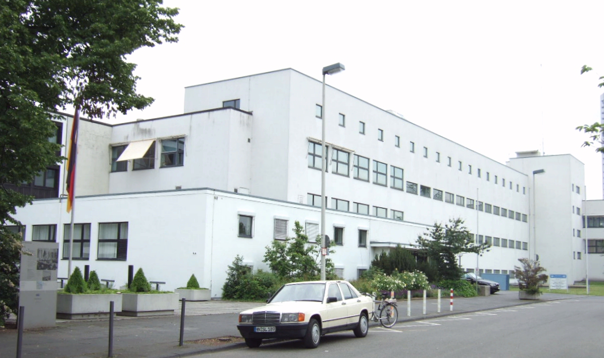 The former Parliament Building (Bundeshaus) of Germany in Bonn.